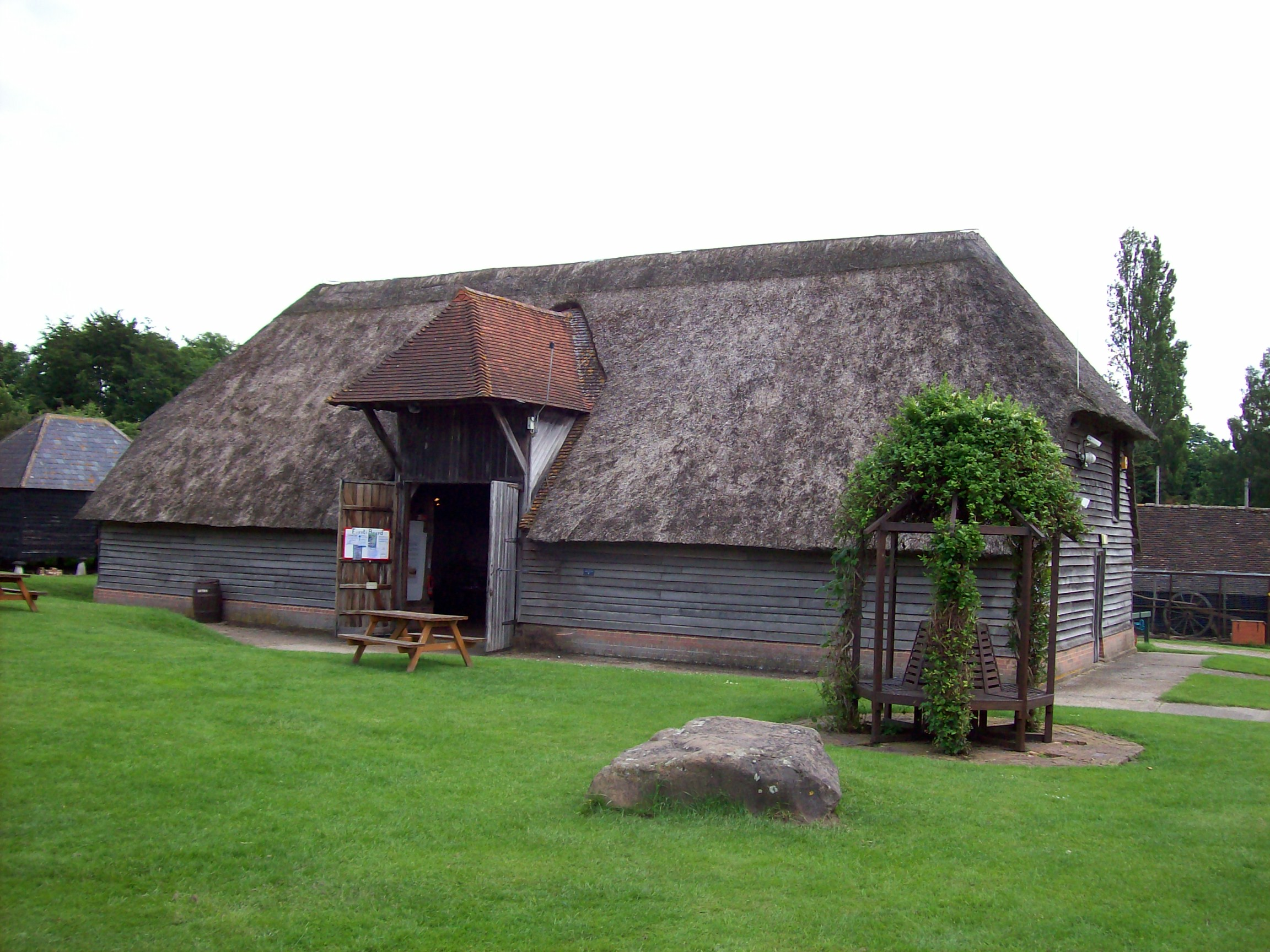 A photo of the barn at the Museum of Kent life